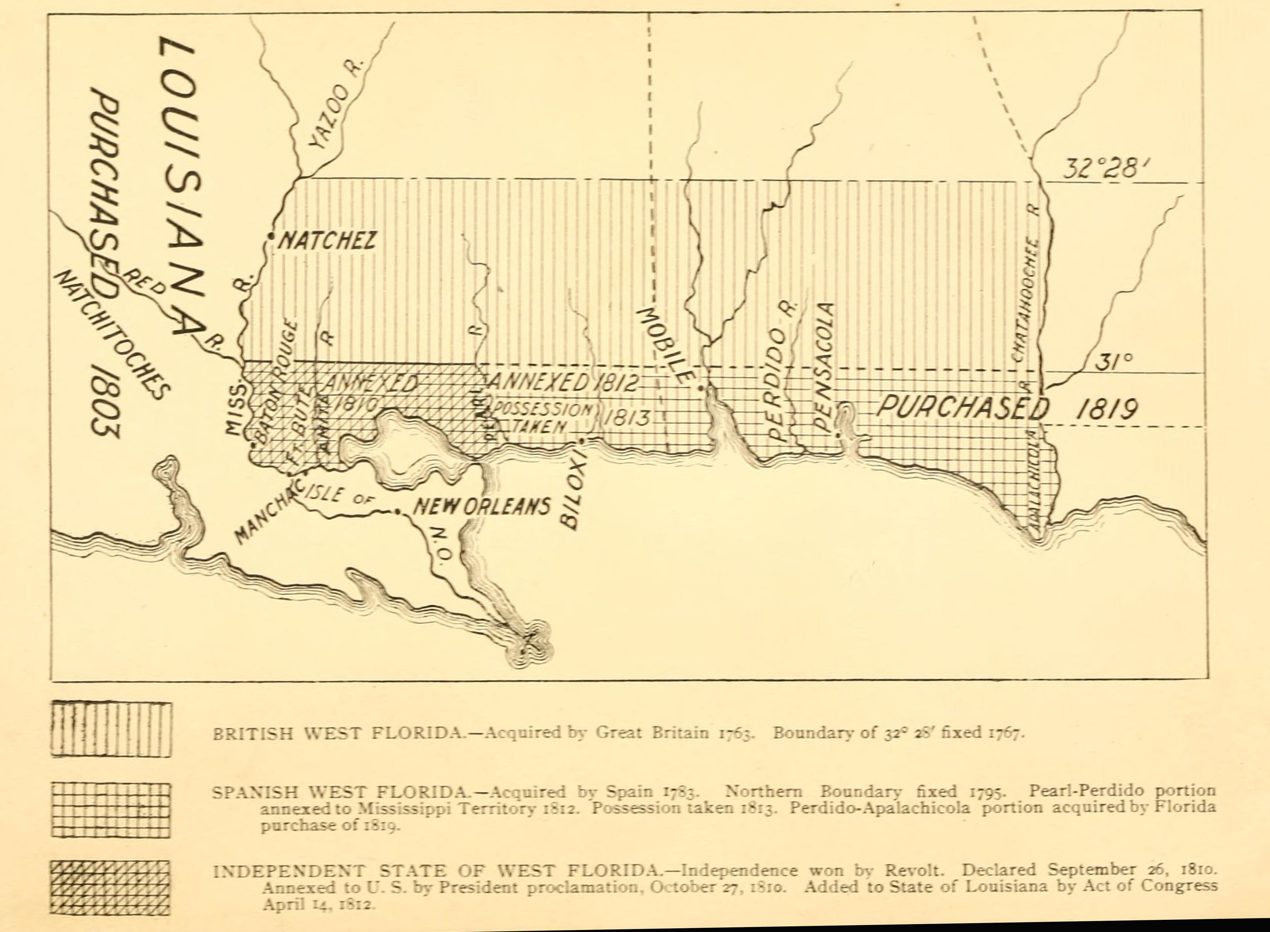 A 1903 map showing the territorial changes of "West Florida"; a historical region that now incorporates portions of Louisiana, Mississippi and Alabama